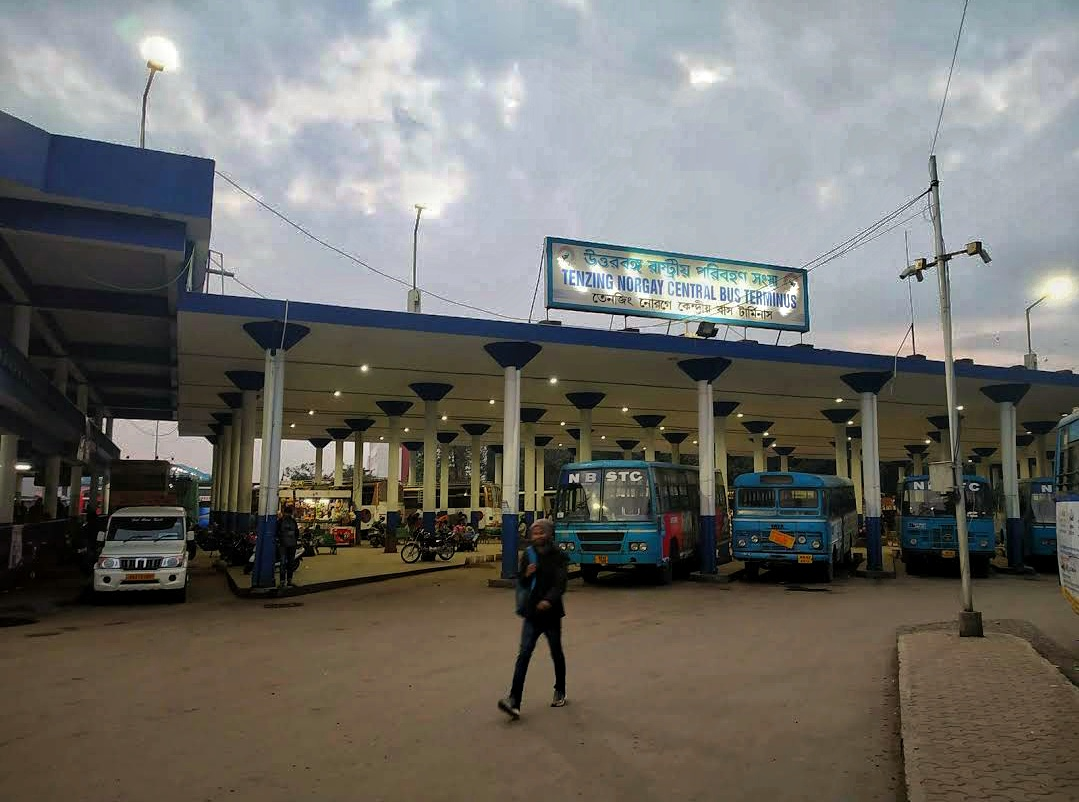 Bus terminus